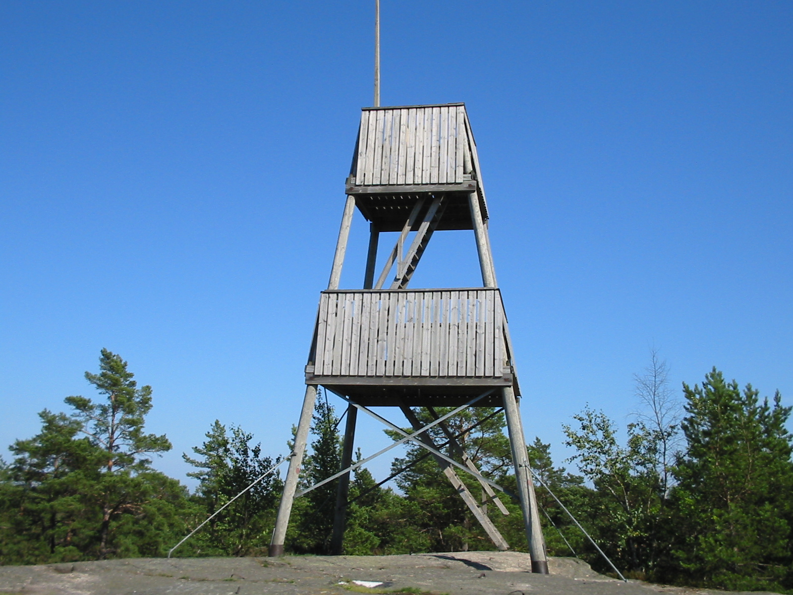 The watchtower on top of Telegrafberget, Tyresö, Sweden from where one has a great view of the surrounding area, all the way to central Stockholm, Dalarö and Gustavsberg